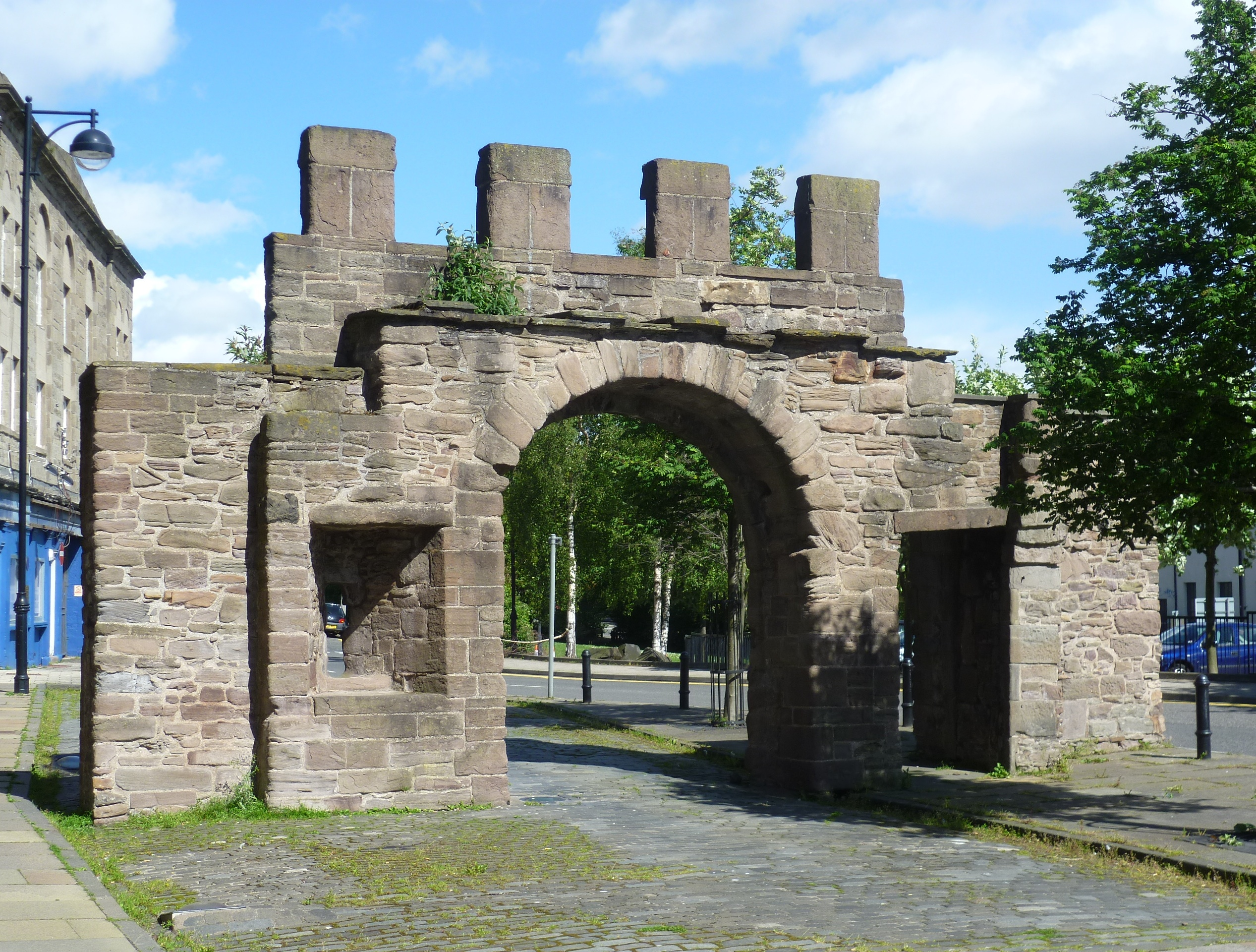 The official listed buildings record contains the following note: "The only remainder of Dundee's town walls and one of only 2 burgh gateways in Scotland. Dundee did not have a continuous walled rampart, but relied for a boundary on back dykes of houses. The Cowgait Port was more a customs post for the collection of revenue than a serious piece of fortification. After the last siege of a town in Britain and Dundee's brutal sacking in 1651, General Monck ordered the slighting and demolition of the towns defensive works. The Cowgait Port was spared, presumably because of its association with the protestant reformer and martyr George Wishart. According to Knox he preached to plague victims in 1544 from "the East Port", which could refer to the larger port on the Seagate or the lesser one in the Cowgate. The latter, adjacent to the old St Roques Chapel, burying ground for plague victims and site for the Old Wishart Church, seems more likely. It has been argued that Dundee's fortifications were extended in 1650 in anticipation of attack by Cromwell and that the Cowgate Port was then moved to its present position. But a stone gateway would have been no use in an artillery siege, so in all probability this is the site from which Wishart preached."